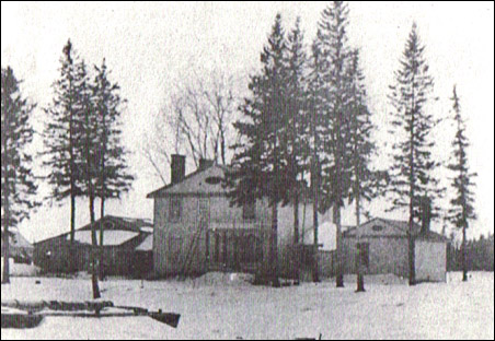 Elmwood (Henry Rowe Schoolcraft), Sault Ste Marie MI The building had extensive exterior remodeling done in the 1880s, replacing the Federal style with Queen Anne elements, making this photo definitely before the remodeling.